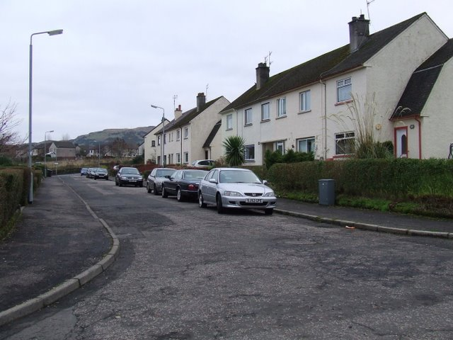 Glebe Road From the Glen Crescent end of the road. Cauldron Hill is in the distance.